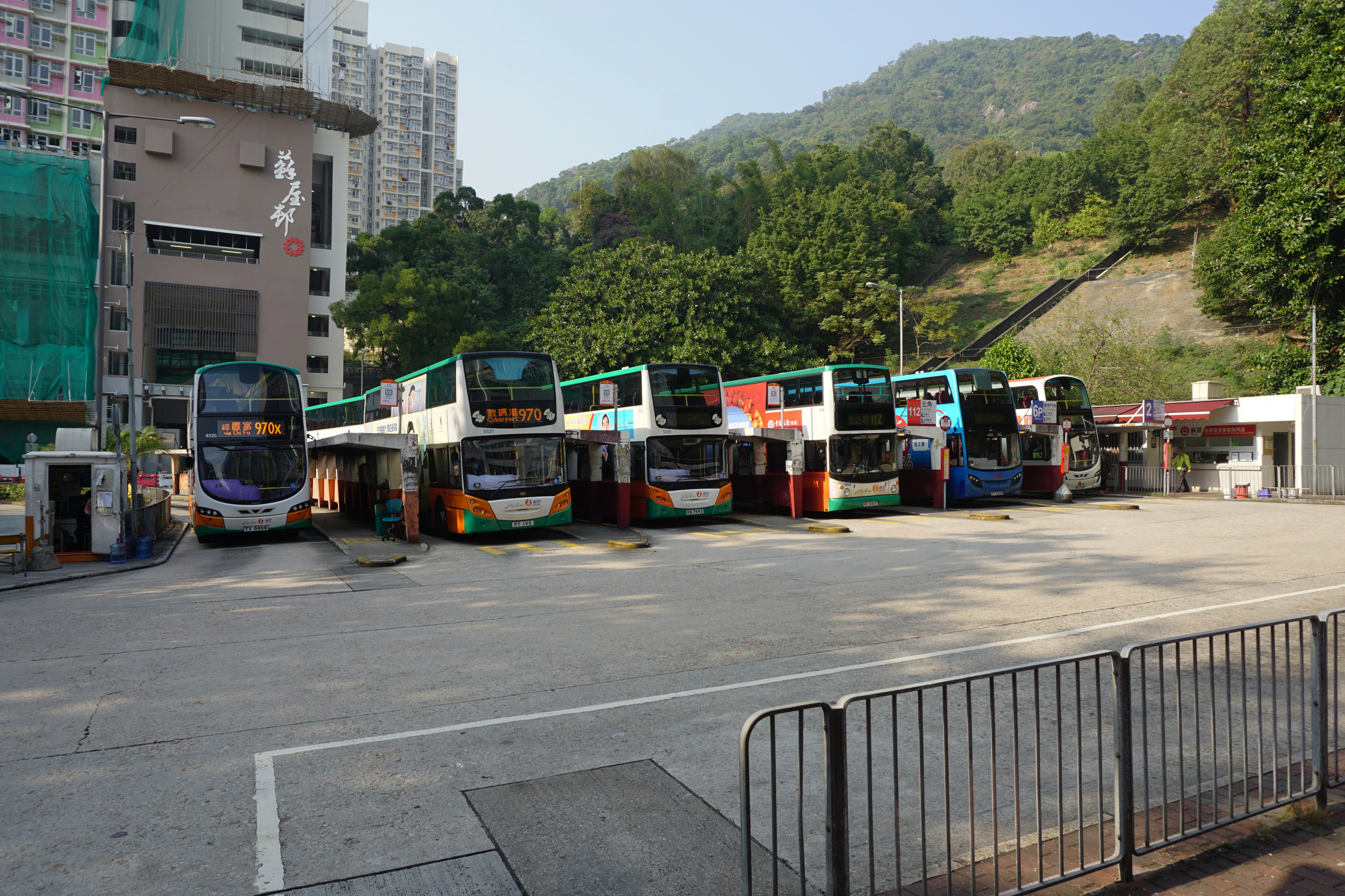 So Uk Bus Terminus in Cheung Sha Wan, Hong Kong.